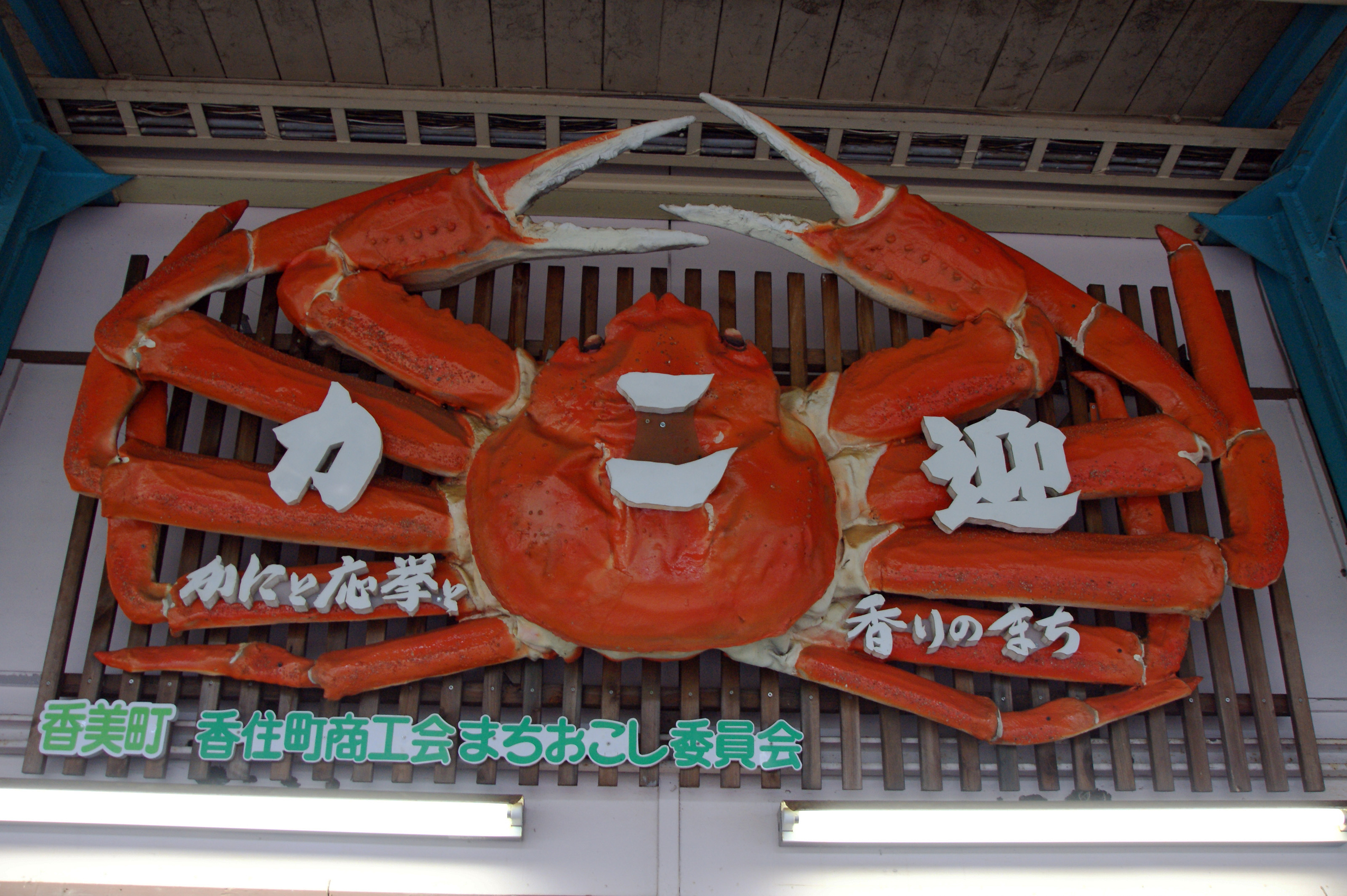 Kasumi Station in Kami, Hyogo prefecture, Japan